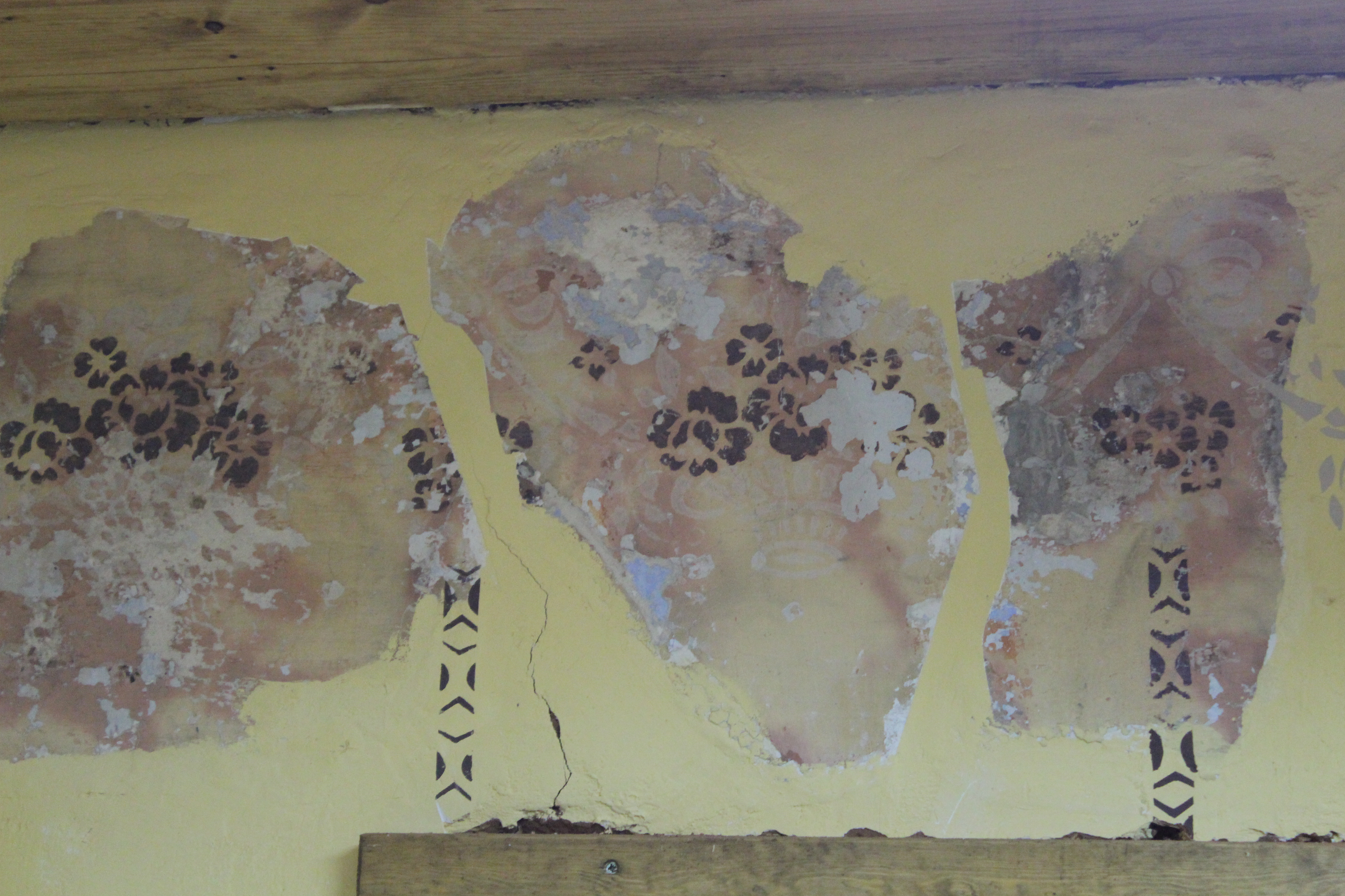 Petah Tikva Old Printing House, Petah Tikva, Israel This image was taken as part of the Elef Millim project trip to Petah Tikva which was held on Friday, 19th July 2013. To view all images uploaded as part of the Elef Millim Project